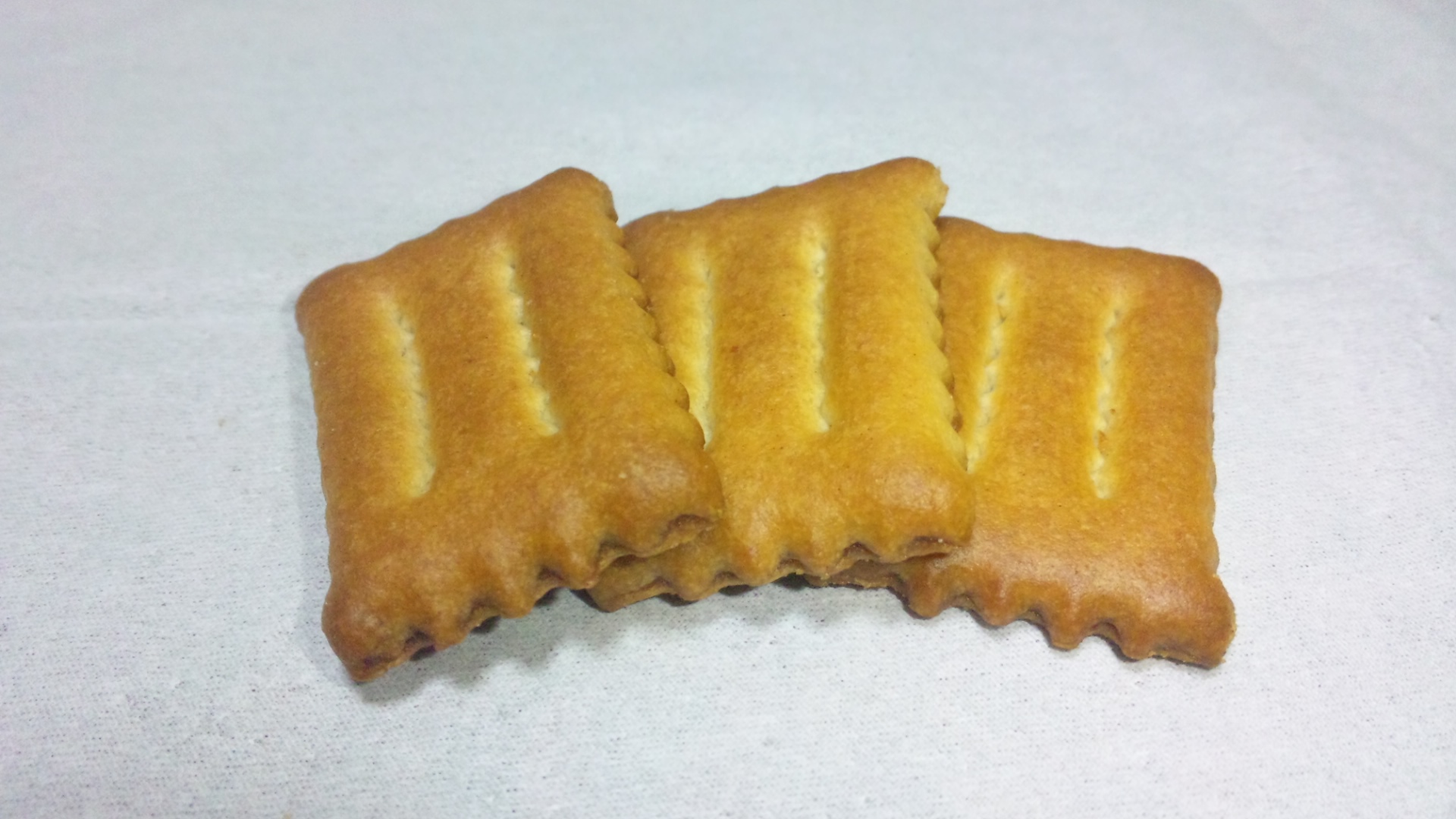 Shiruko-sandwich selling in part of Japan